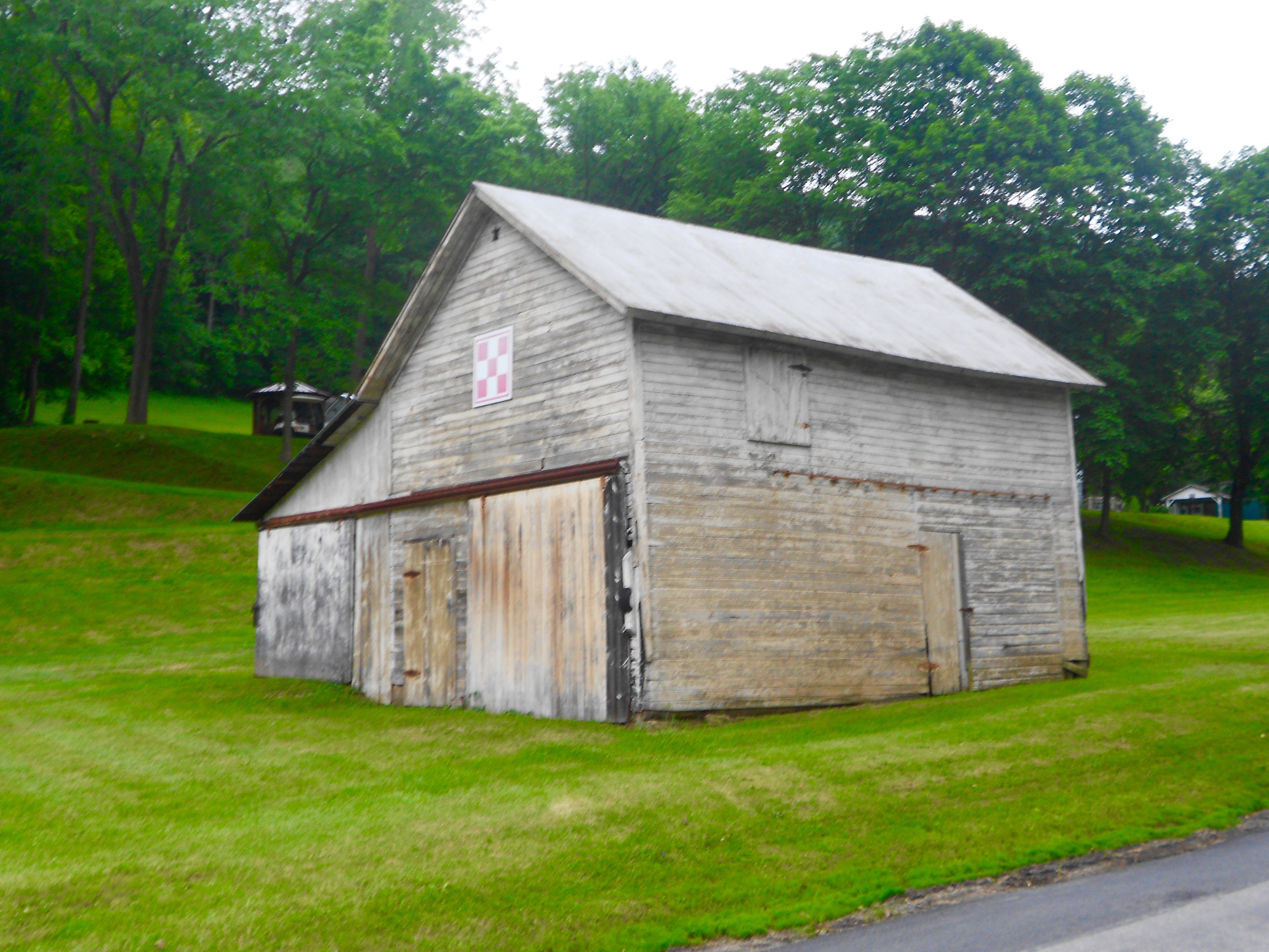 Barn in Oliver Township Mifflin County Pennsylvania, about 5 minutes NW of McVeytown